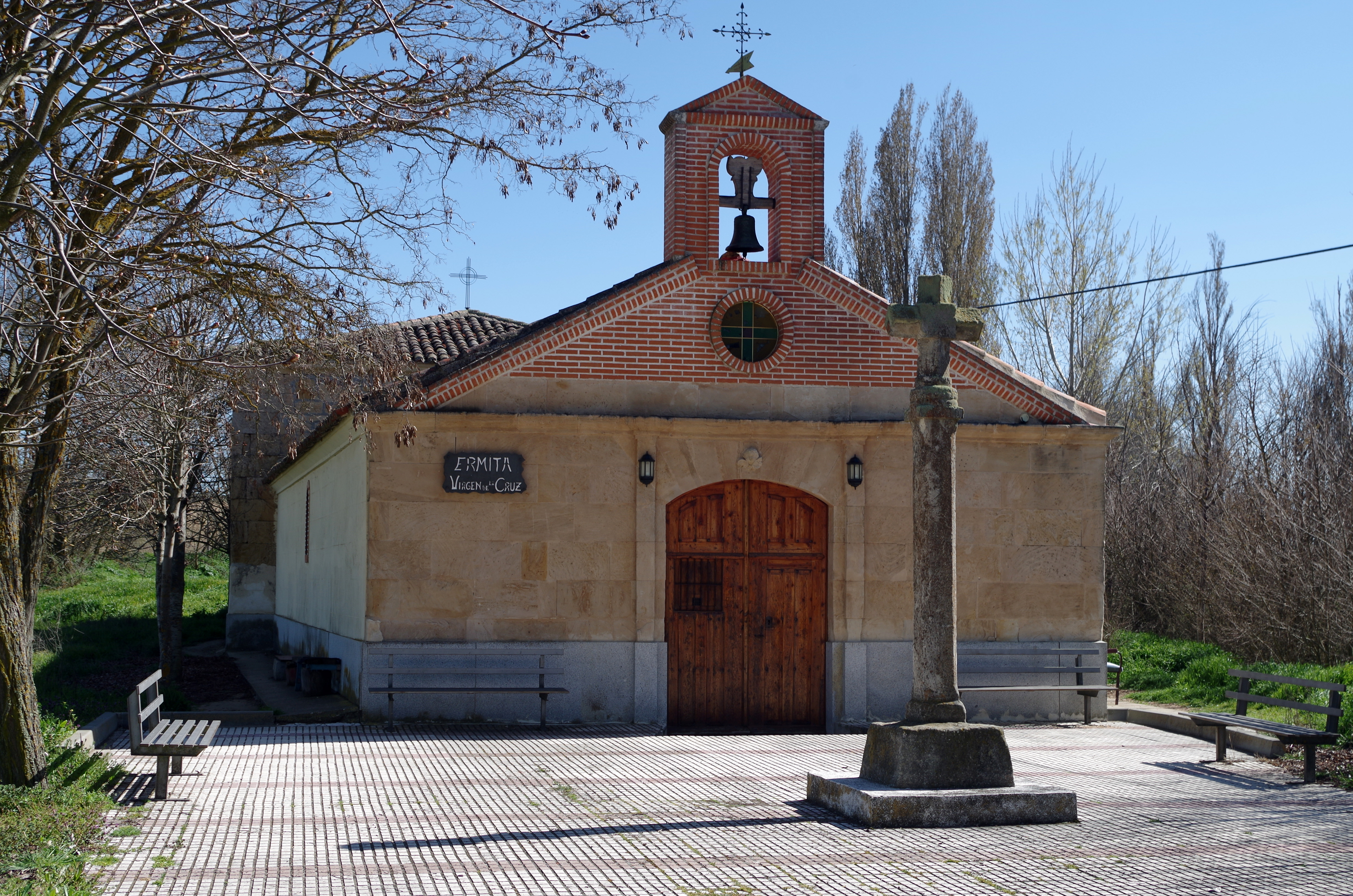 Hermitage of Cañizal (Zamora, Spain).